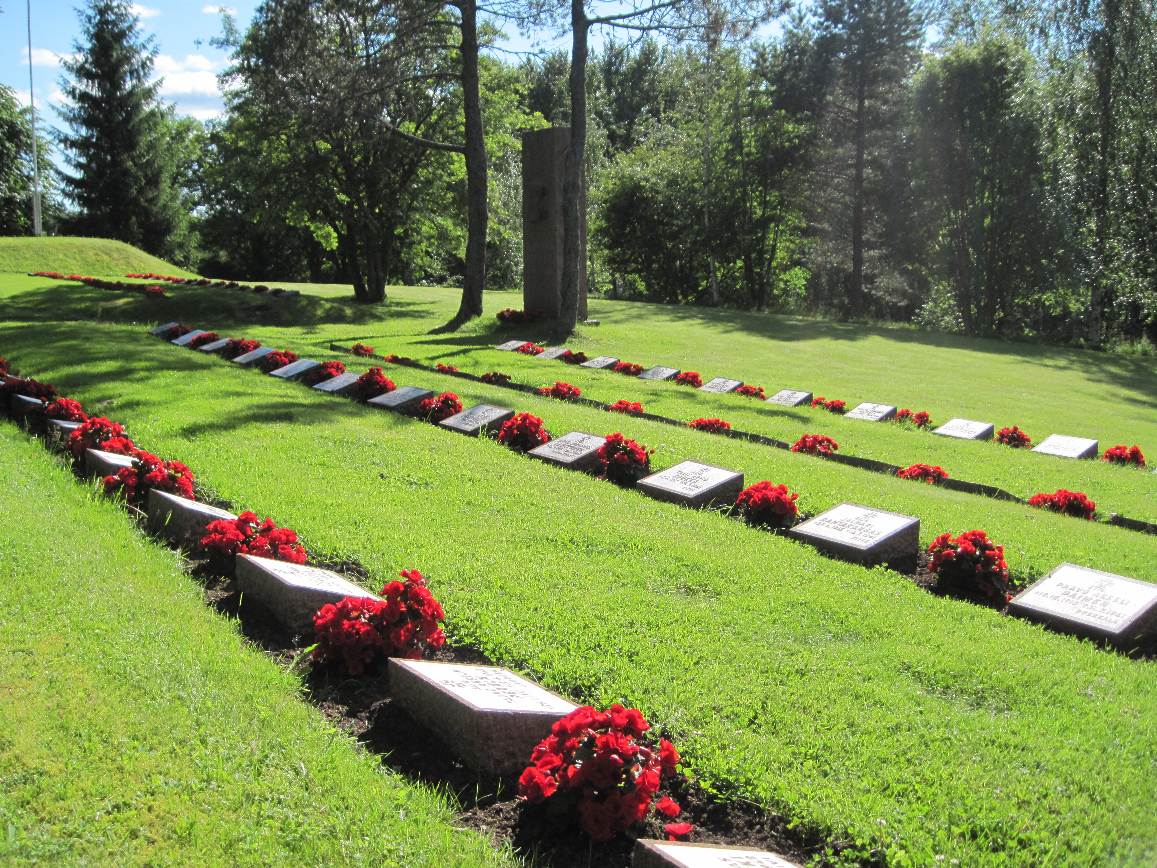 Military cemetary at church in Lehtimäki, Finland